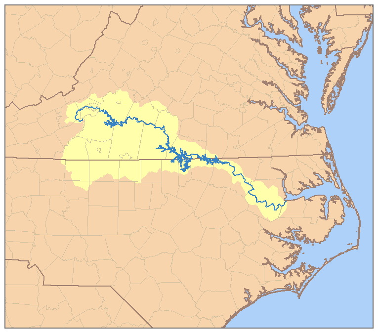 This is a map of the Roanoke River watershed. I, Pfly, made it, based on USGS data.